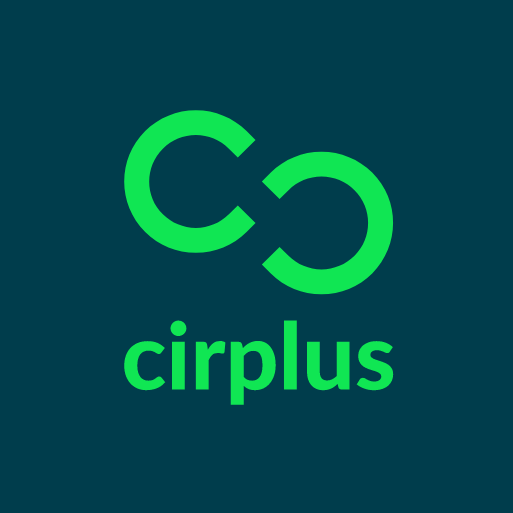 cirplus GmbH - The Global Marketplace for Circular Plastics